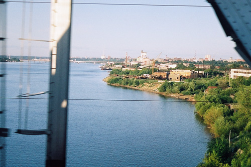 Trans-SiberianRailroad view from the bridge Kama river at city Perm.